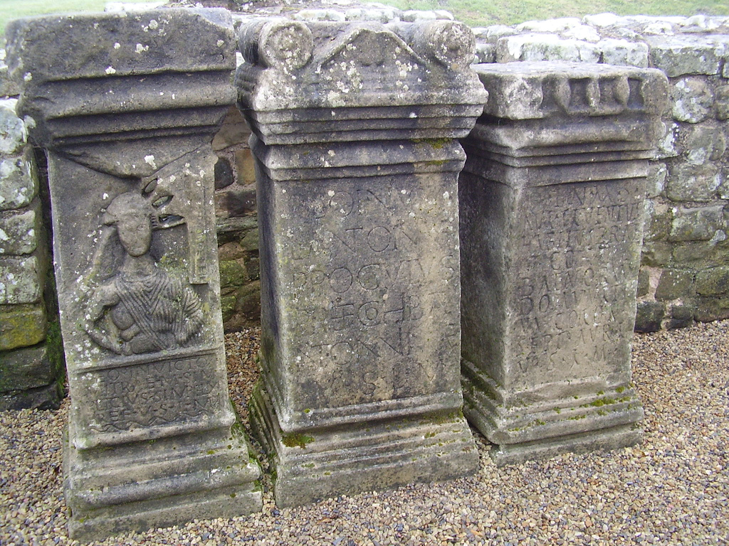 These are three altars from the Carrawburgh Mithraeum a: AE 1951, 125b = RIB 1, 1545: D(eo) In(victo) M(ithrae) s(acrum) / Aul(us) Cluentius / Habitus pra(e)f(ectus) / coh(ortis) I / Batavorum / domu Ulti/n(i)a colon(ia) / Sept(imia) Aur(elia) L(arino) / v(otum) s(olvit) l(ibens) m(erito) b: AE 1951, 125a = RIB 1, 1544: Deo Inv(icto) M(ithrae) / L(ucius) Antonius / Proculus / praef(ectus) coh(ortis) I Bat(avorum) Antoninianae / v(otum) s(olvit) l(ibens) m(erito) c: AE 1951, 125c = RIB 1, 1546: Deo Invicto / Mit(h)rae M(arcus) Sim/plicius Simplex / pr(a)ef(ectus) v(otum) s(olvit) l(ibens) m(erito)